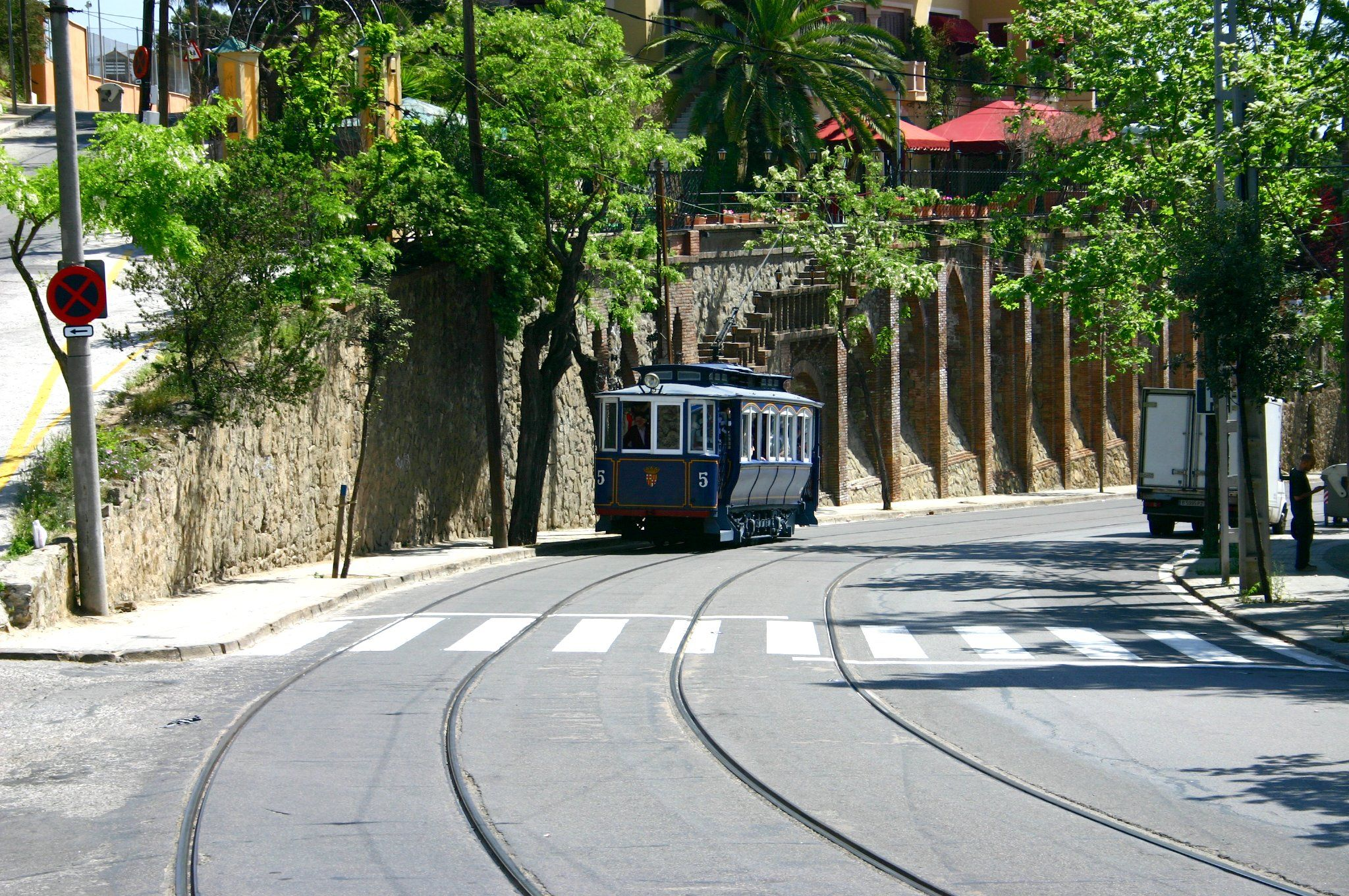 Streetcar from Av. Tibidabo (Ferrocarrils Catalans) to Tibidabo Funicular.